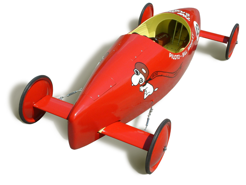 Image of a soap box derby racer of a late 1960s design, complete with the official, Soap Box Derby issue wheels, painted red. Seen here is an exact replica of a hand-built racer constructed in 1967 by Bill Wrigley Jr., supervised by his father, and raced the following year at a non-franchise Soap Box Derby race, dubbed the Kinsmen Coaster Classic, in Montreal, Canada. It was raced for five years in total by Bill Jr. and younger brother Derek, at various organized races throughout Quebec and Ontario.